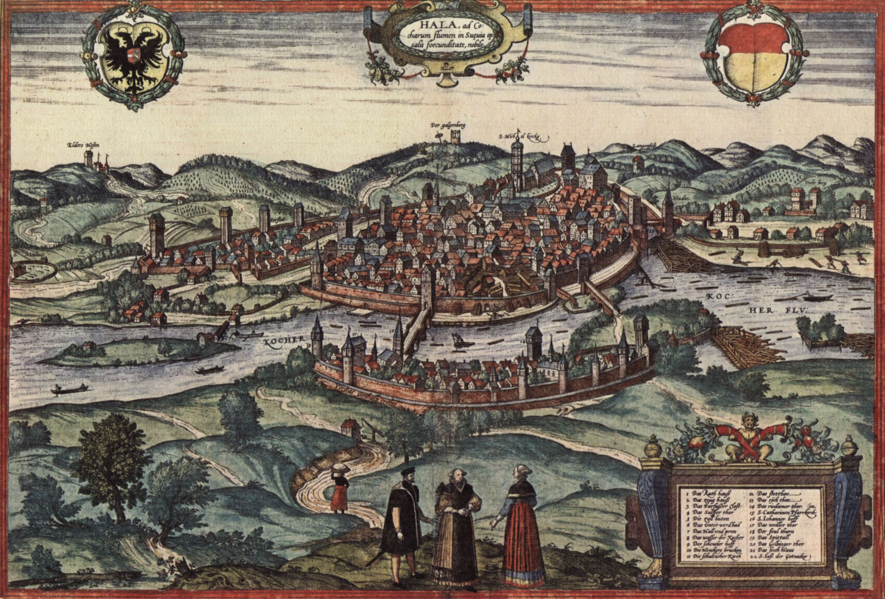 City of Hall „in Swabia“ in the 16th century (coloured copperplate engraving)